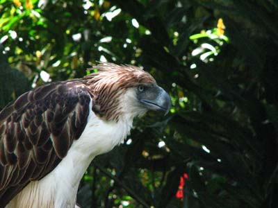 Sir Arny, a Philippine Eagle Pithecophaga jefferyi, The Philippine Eagle Center, Malagos, Baguio District, Davao City, Philippines